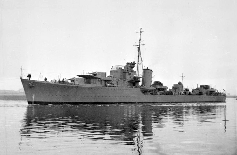 HMS Noble Underway